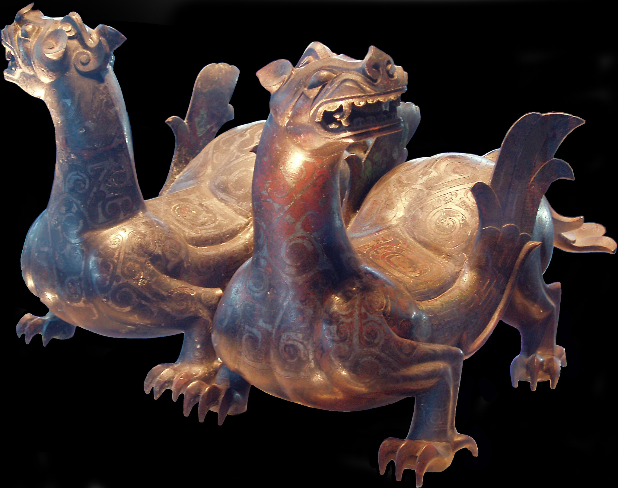 Double-creature with silver wings